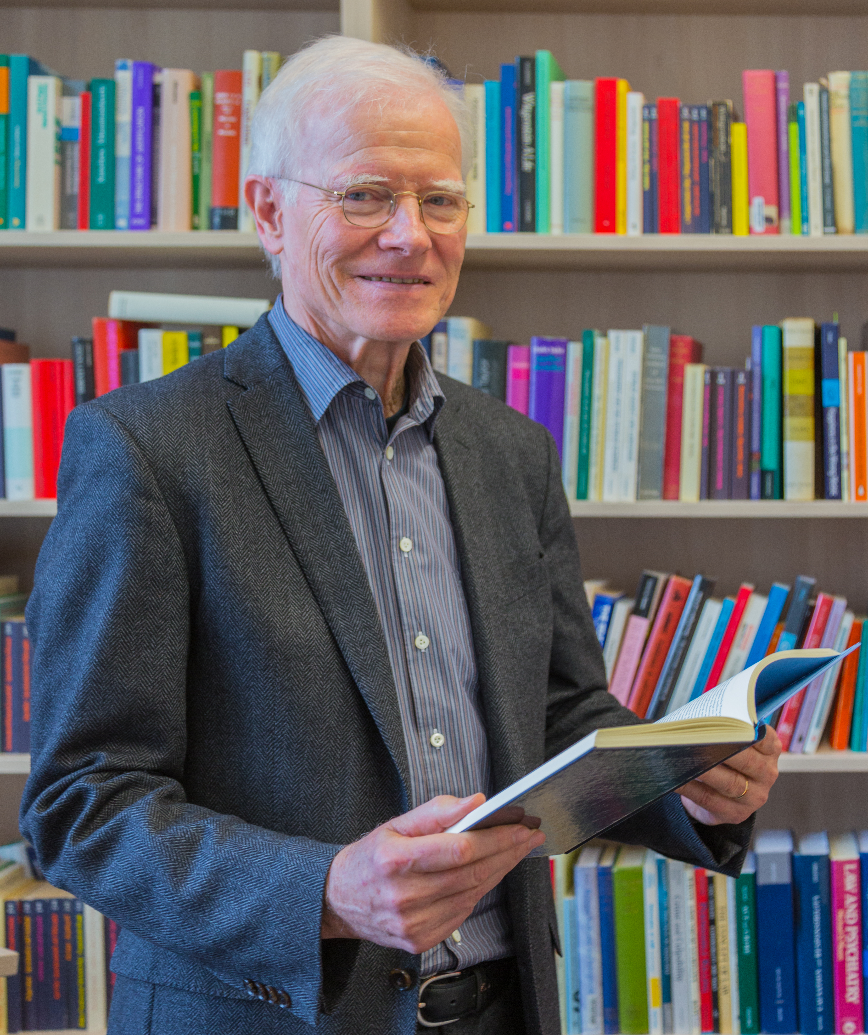 German philosopher Dr. Ludwig Siep, Professor Emeritus of Philosophy at the University of Münster (Westfälische Wilhelms-Universität Münster). Picture taken in his (former) office at the third floor of the Philosophikum, 23 Cathedral Square (Domplatz 23) in the city centre of Münster, North Rhine-Westphalia, Germany.